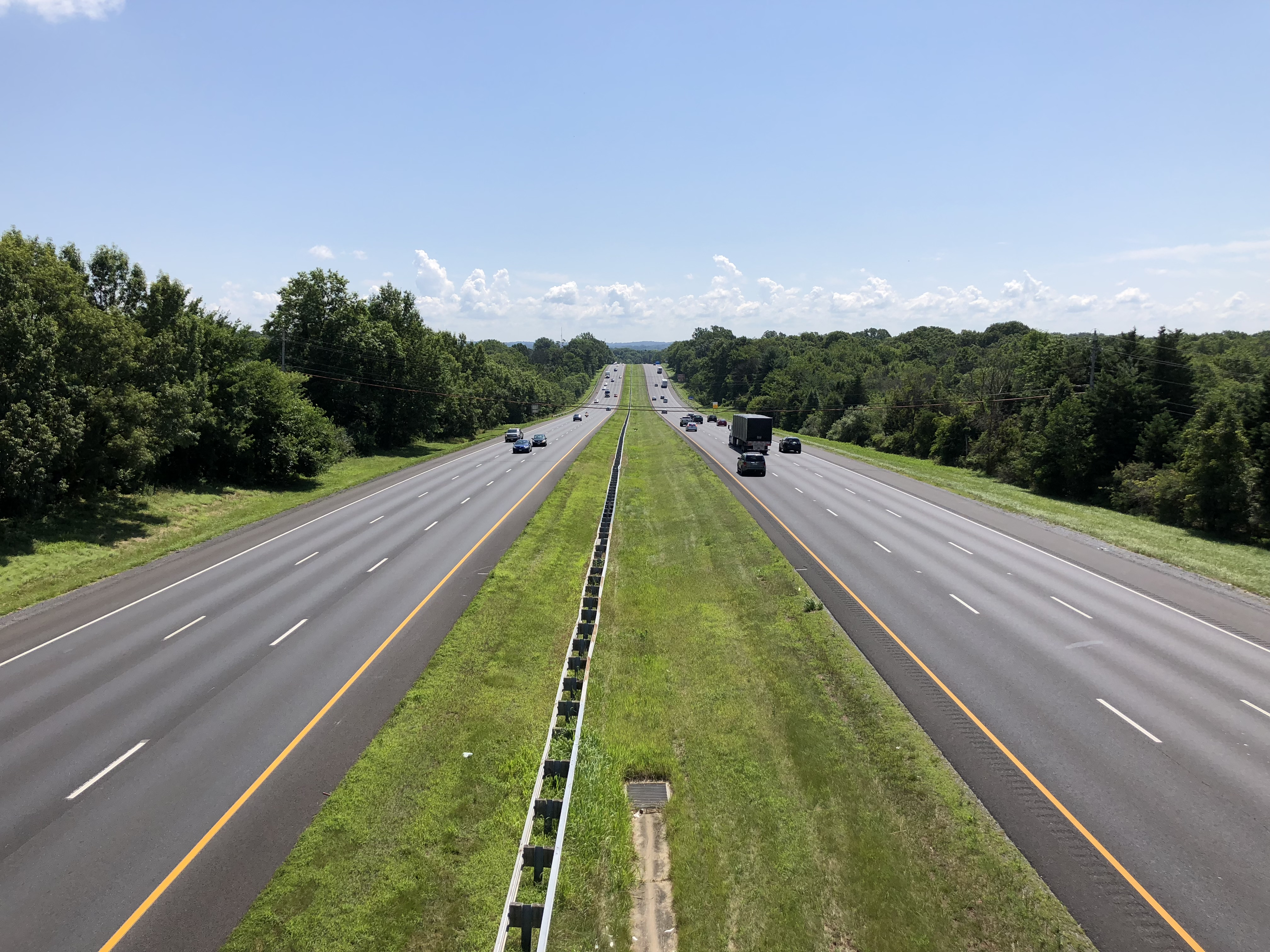 View east along Interstate 70 and U.S. Route 40 (Baltimore National Pike) from the overpass for Mussetter Road in Linganore, Frederick County, Maryland